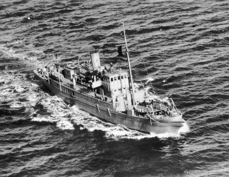 HMS Tuscarora Underway.